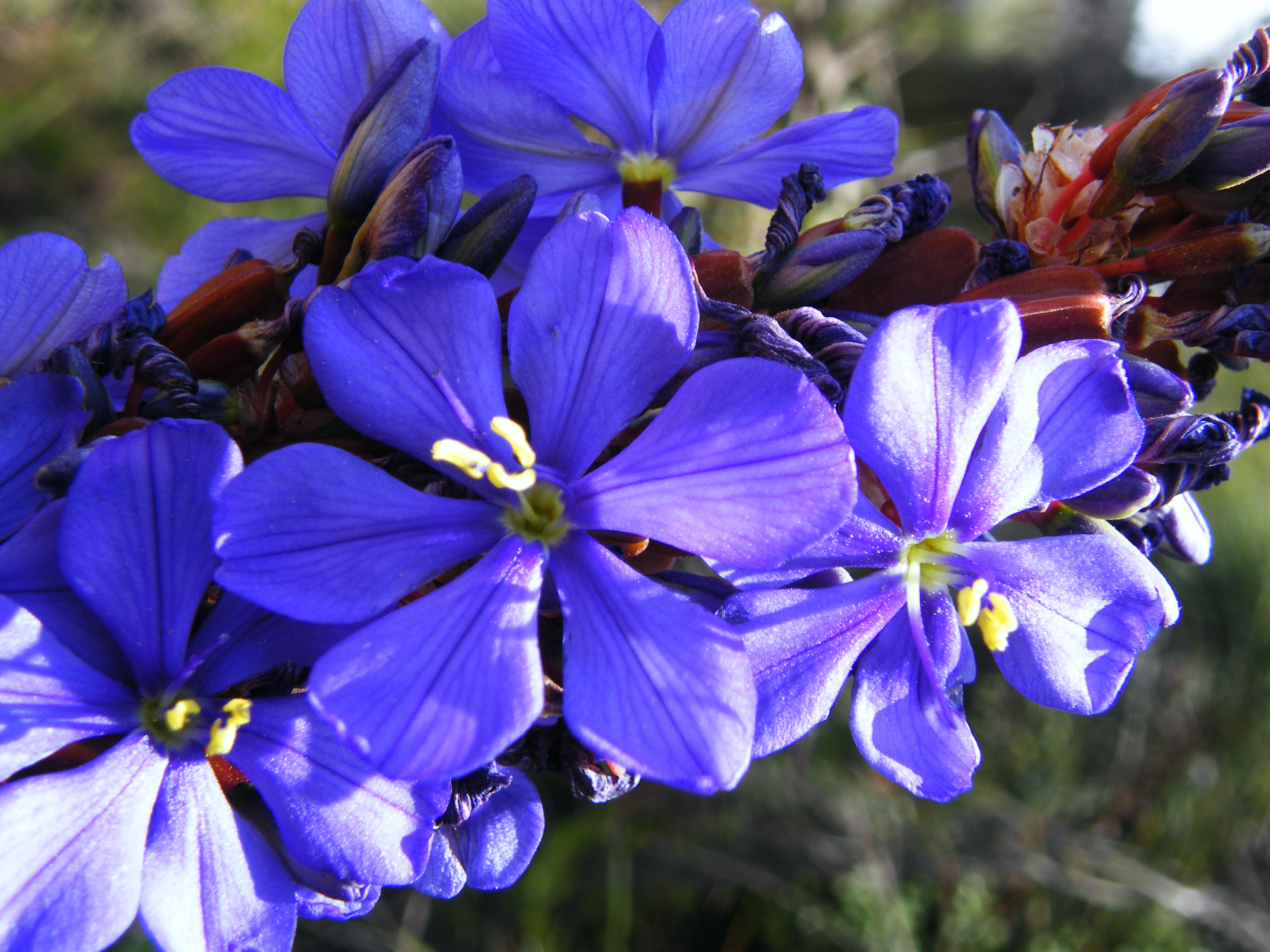 Aristea